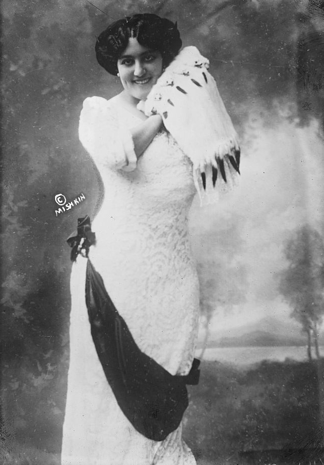 Carmen Melis, Mishkin Photo / Mishkin Photo.